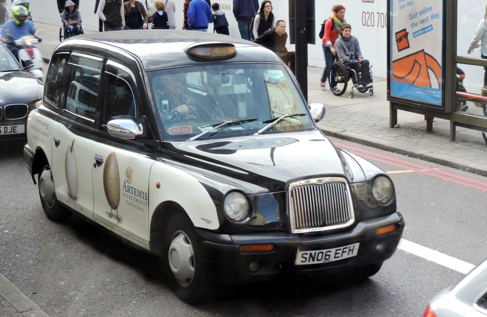 London Taxi showing advertising.